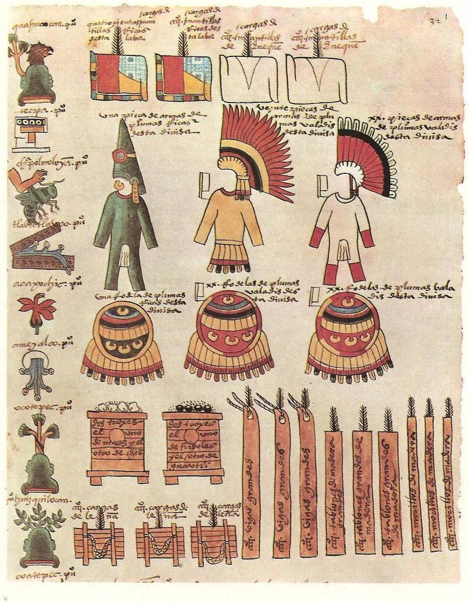 Codex Mendoza